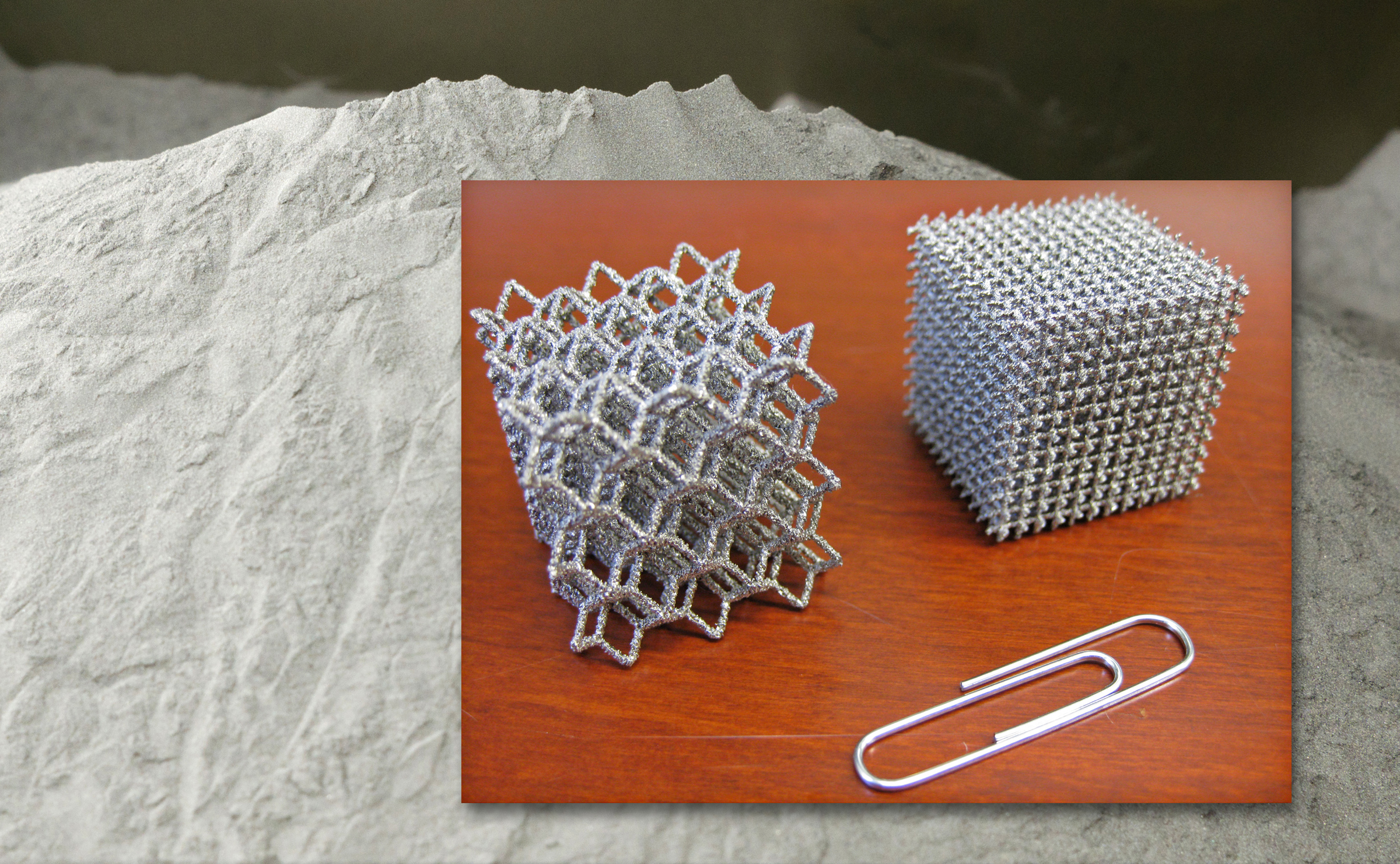 Deposited layer by layer, metal powder can be used to create parts of different shapes and sizes. NIST research projects focus on characterizing the material properties of the powders used for additive manufacturing and the resulting products and improving the performance of additive manufacturing equipment and processes. Credit: Young/NIST Disclaimer: Any mention of commercial products within NIST web pages is for information only; it does not imply recommendation or endorsement by NIST. Use of NIST Information: These World Wide Web pages are provided as a public service by the National Institute of Standards and Technology (NIST). With the exception of material marked as copyrighted, information presented on these pages is considered public information and may be distributed or copied. Use of appropriate byline/photo/image credits is requested.